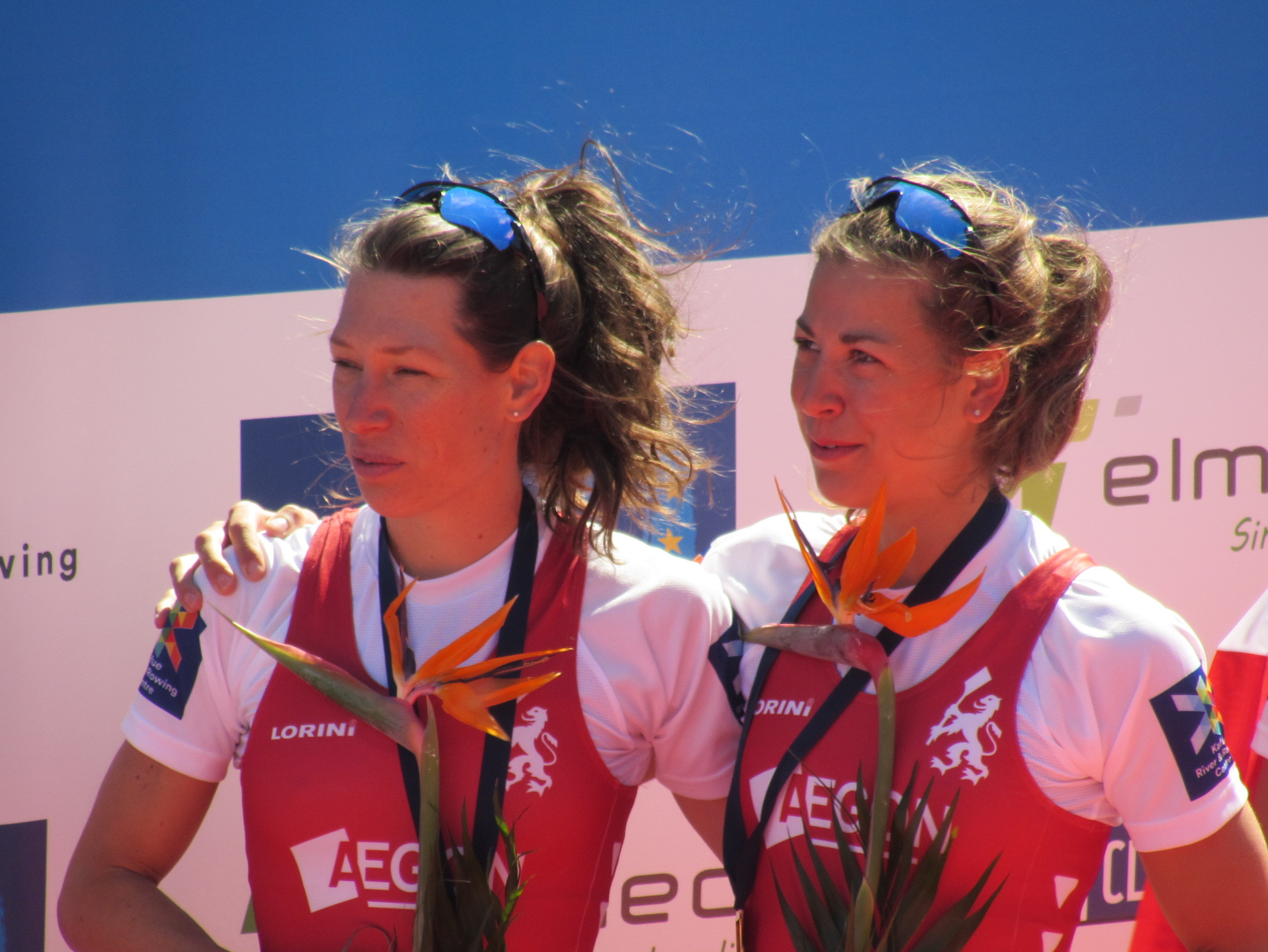 Ilse Paulis (right) and Maaike Head (left) at the 2016 European Rowing Championships in Brandenburg an der Havel, Germany